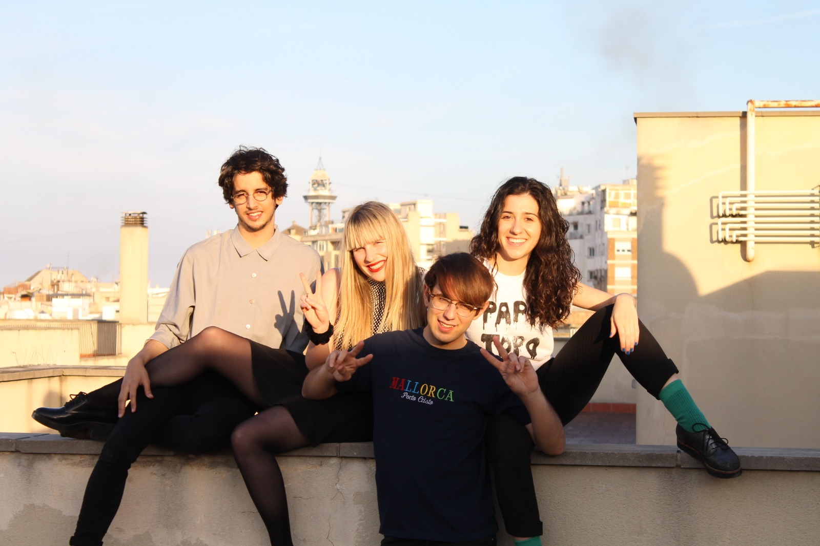 Papa Topo